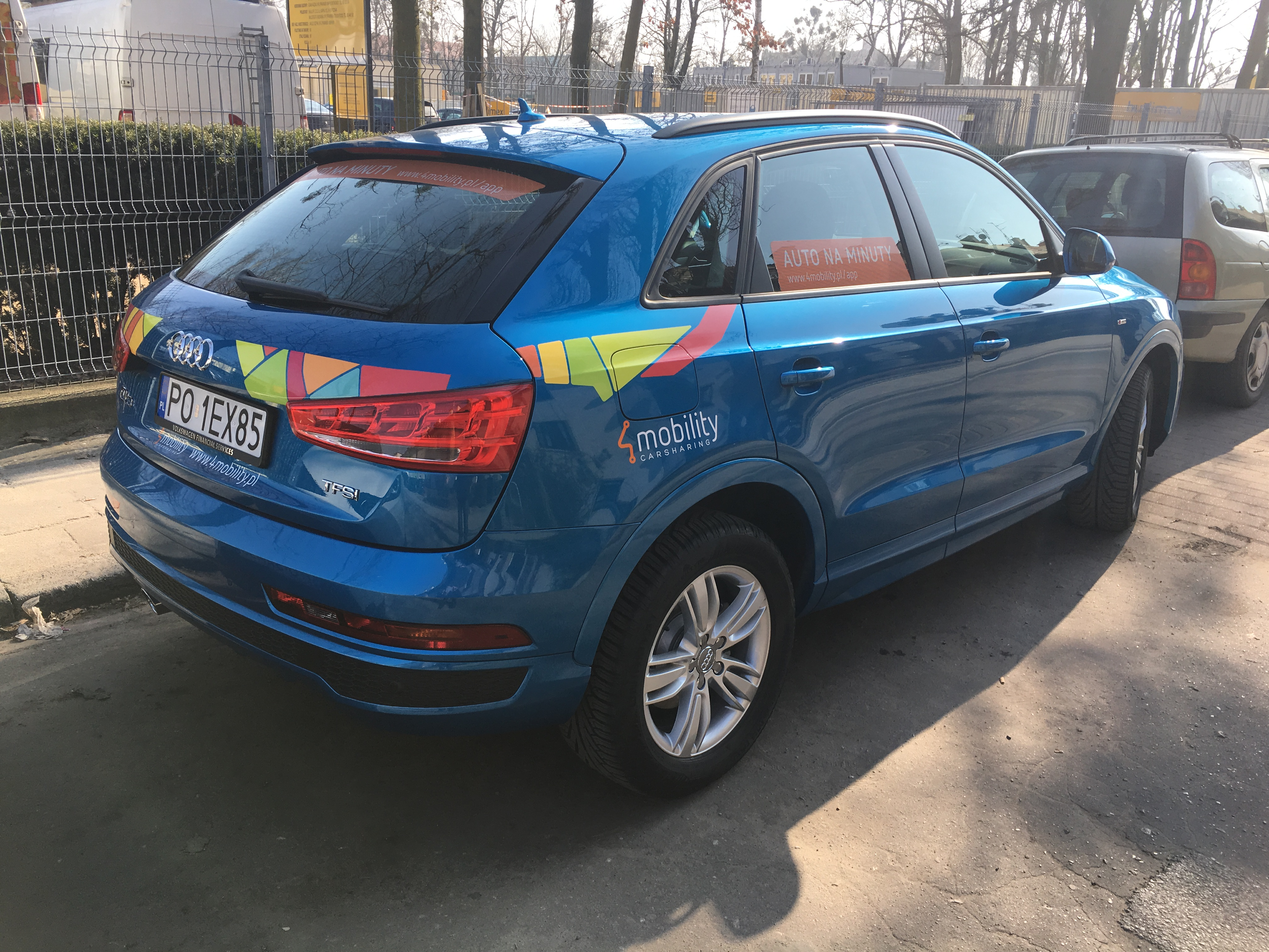 A car of a Polish carsharing company 4mobility.pl in Poznań - Audi Q3